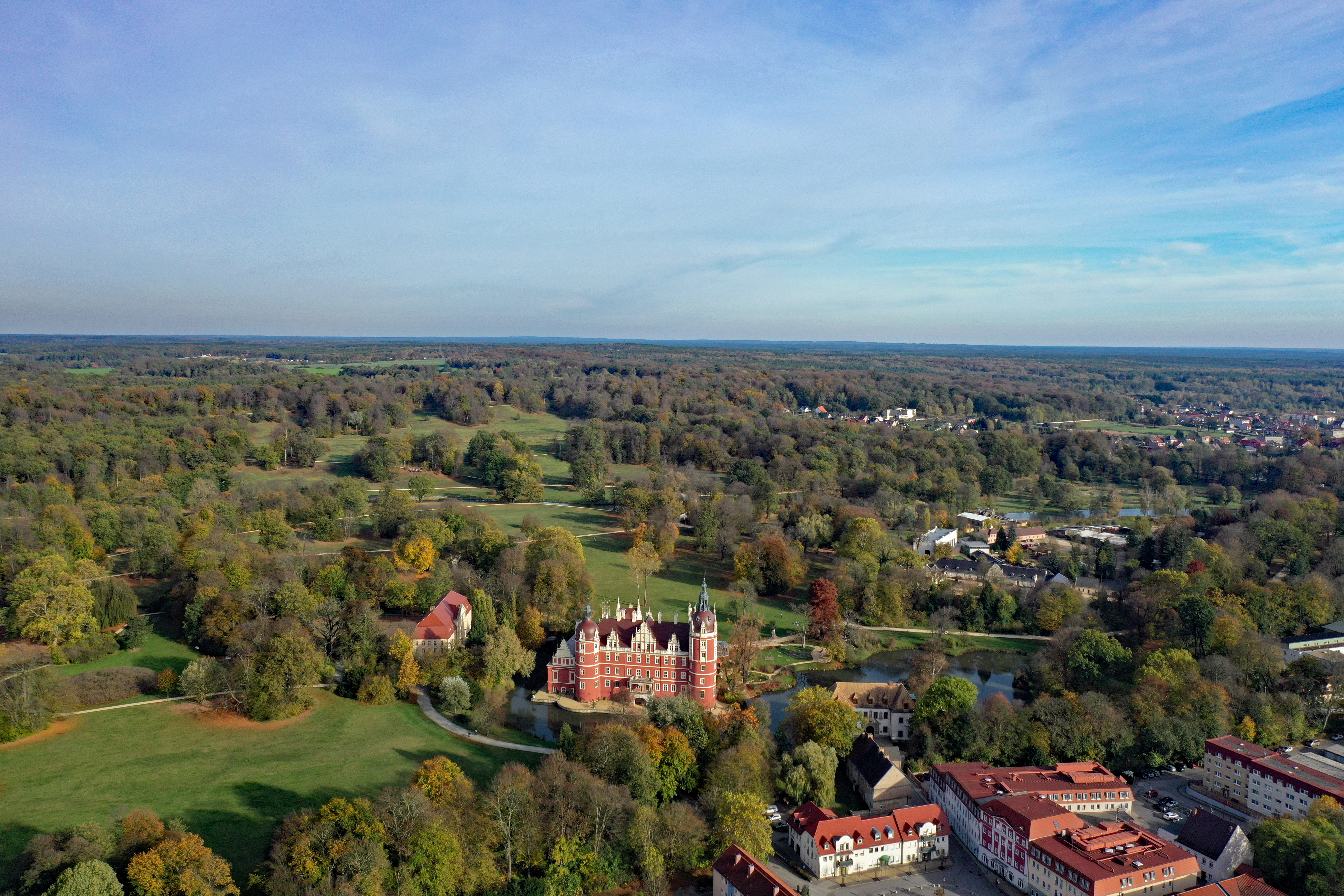 Bad Muskau (Saxony, Germany) Hornjoserbsce: Powětrowy wobraz Mužakowskeho hrodu a parka